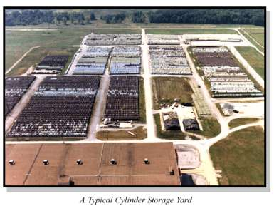 Typical depleted UF6 cylinder storage yard: Storage yards are large outdoor areas that typically have a gravel or concrete base. The cylinders are typically stacked two high in the yards. The bottom cylinders are placed on concrete or wooden chocks. Picture presumably taken at Paducah Gaseous Diffusion Plant